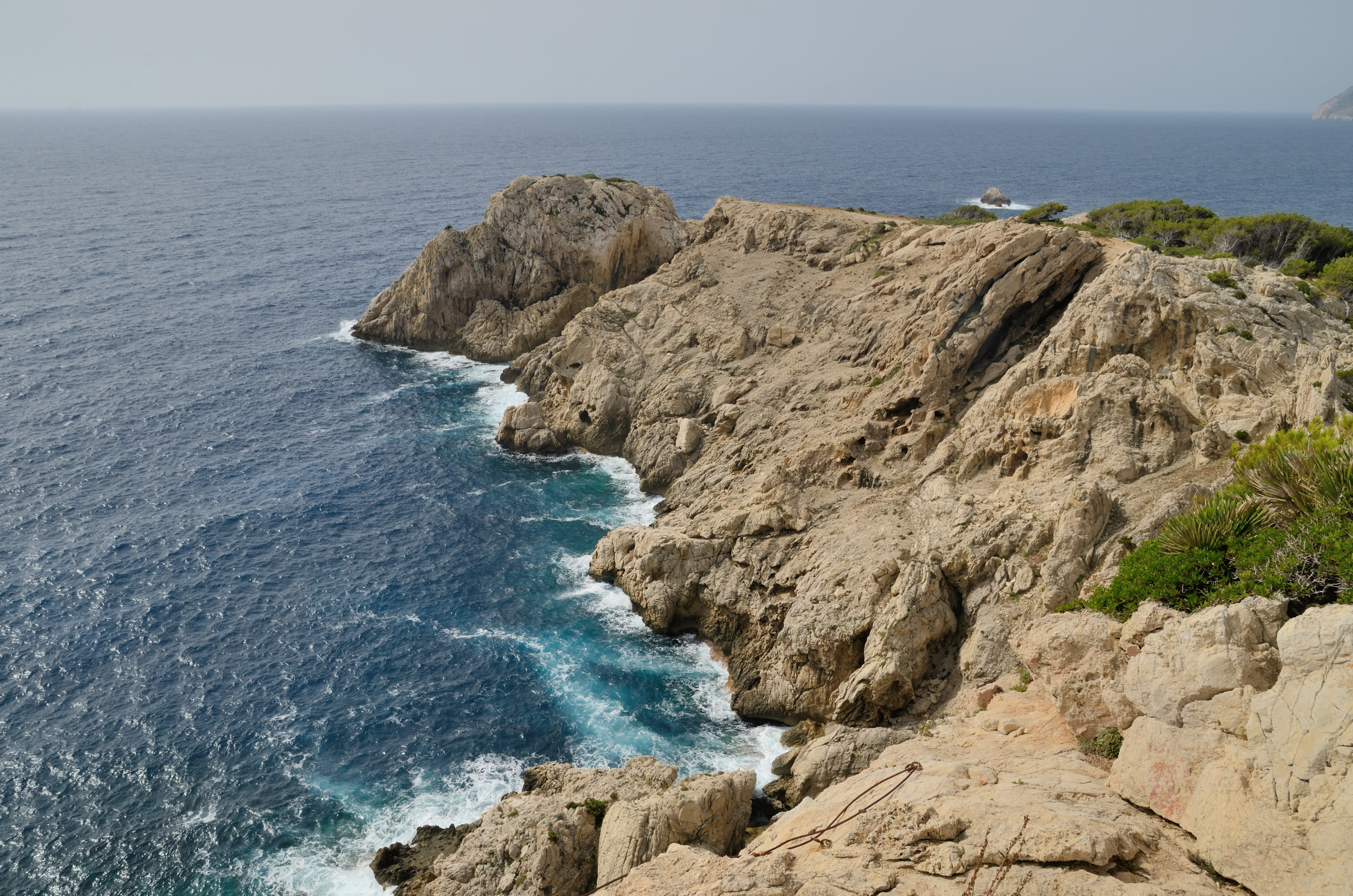 Cap of Capdepera (Punta de Cala Gat)